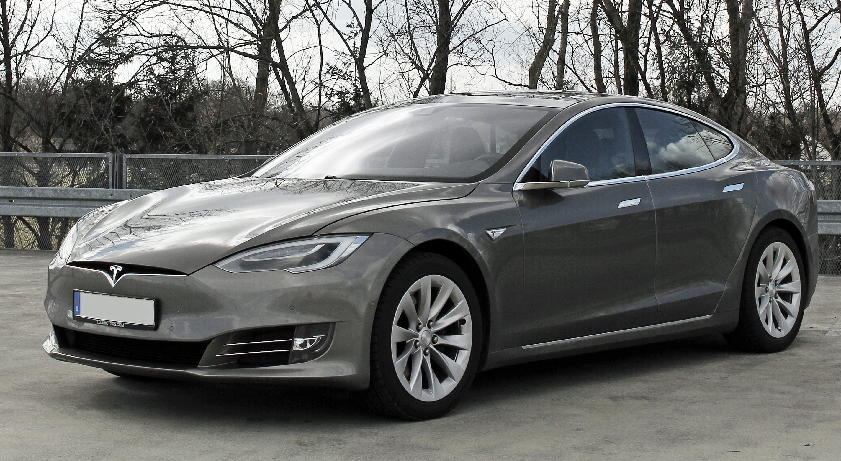 Tesla Model S 90 D